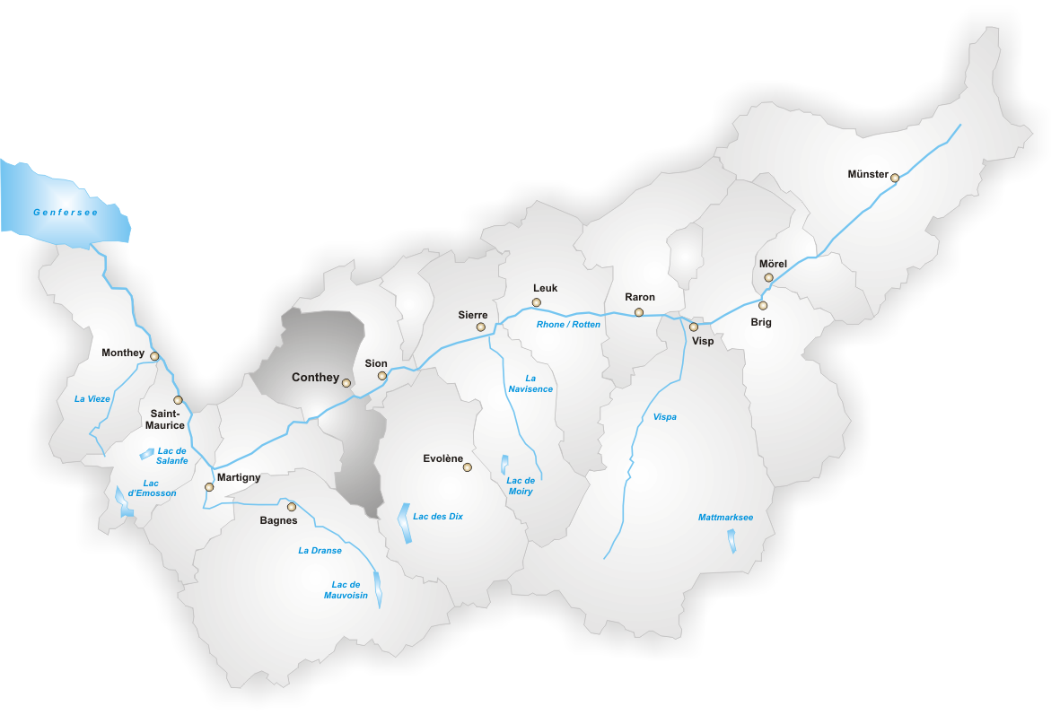 District Conthey